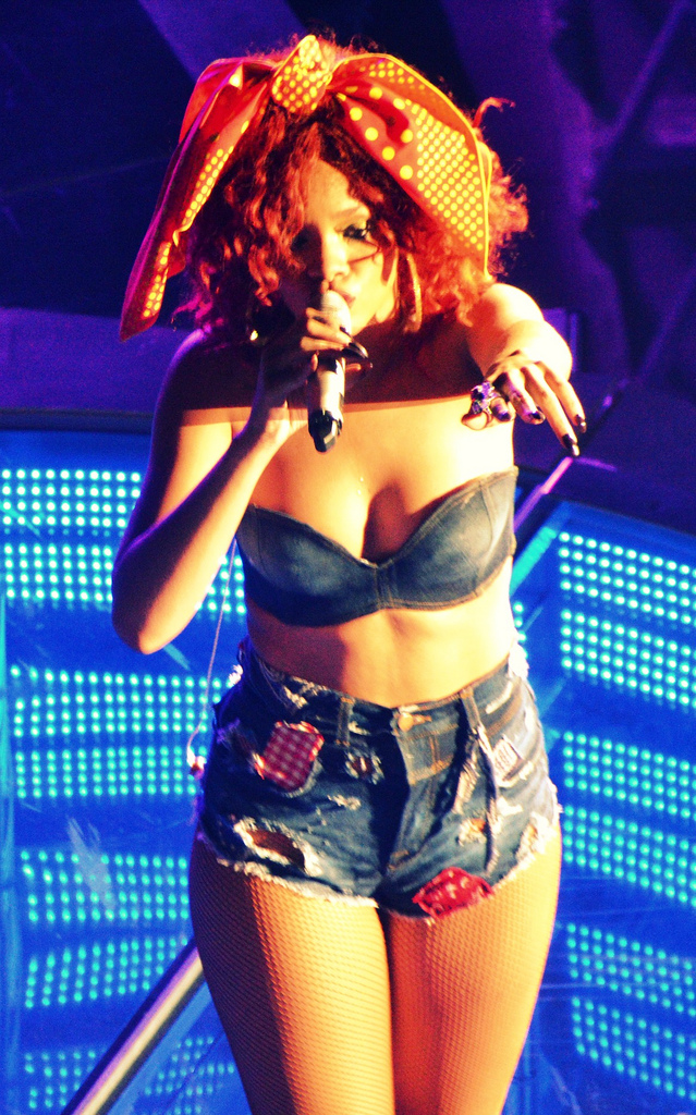 Rihanna live in Baltimore, on her tour The LOUD Tour. 4th June 2011